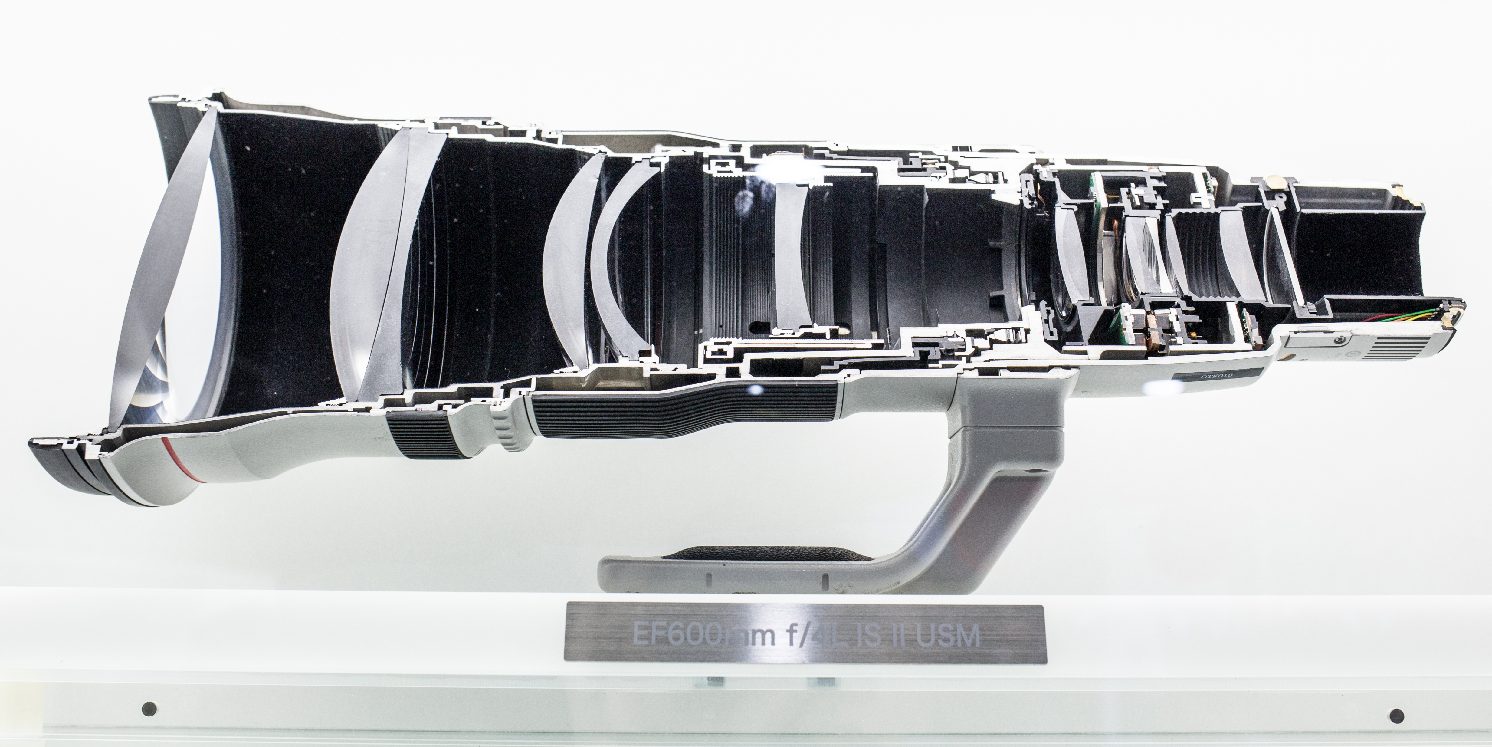 Canon EF 600mm f/4L IS II USM cut lens inside